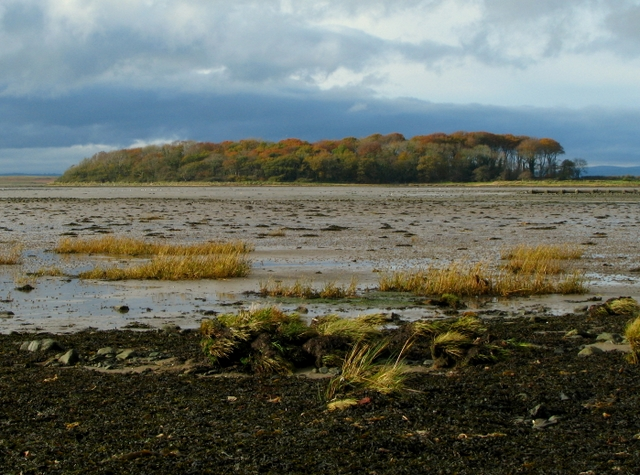 Towards South Island, Strangford Lough. South Island (lies in J5666) as viewed from the shoreline south of Greyabbey. There appears to be a cottage on the island - I think that it is only accessible at low tide via a causeway to Mid Island 1040156 to the north. Walking to it from this location is technically possible but the mud and tide can both be treacherous.